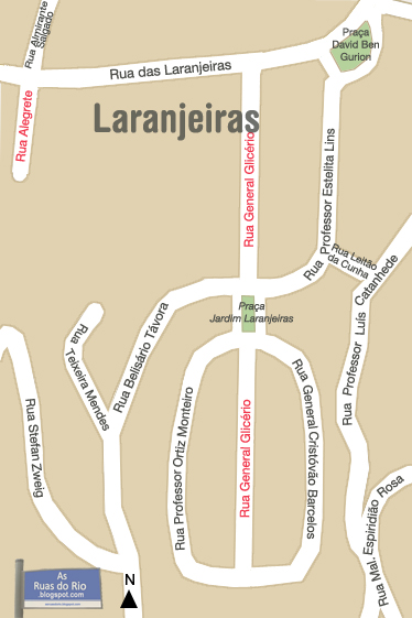 Mapa da rua General Glicério e arredores, publicado pelo blog Ruas do Rio.